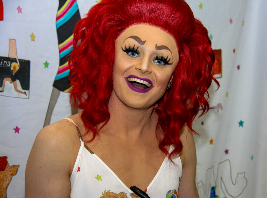 Tammie Brown at RuPaul's DragCon LA 2018